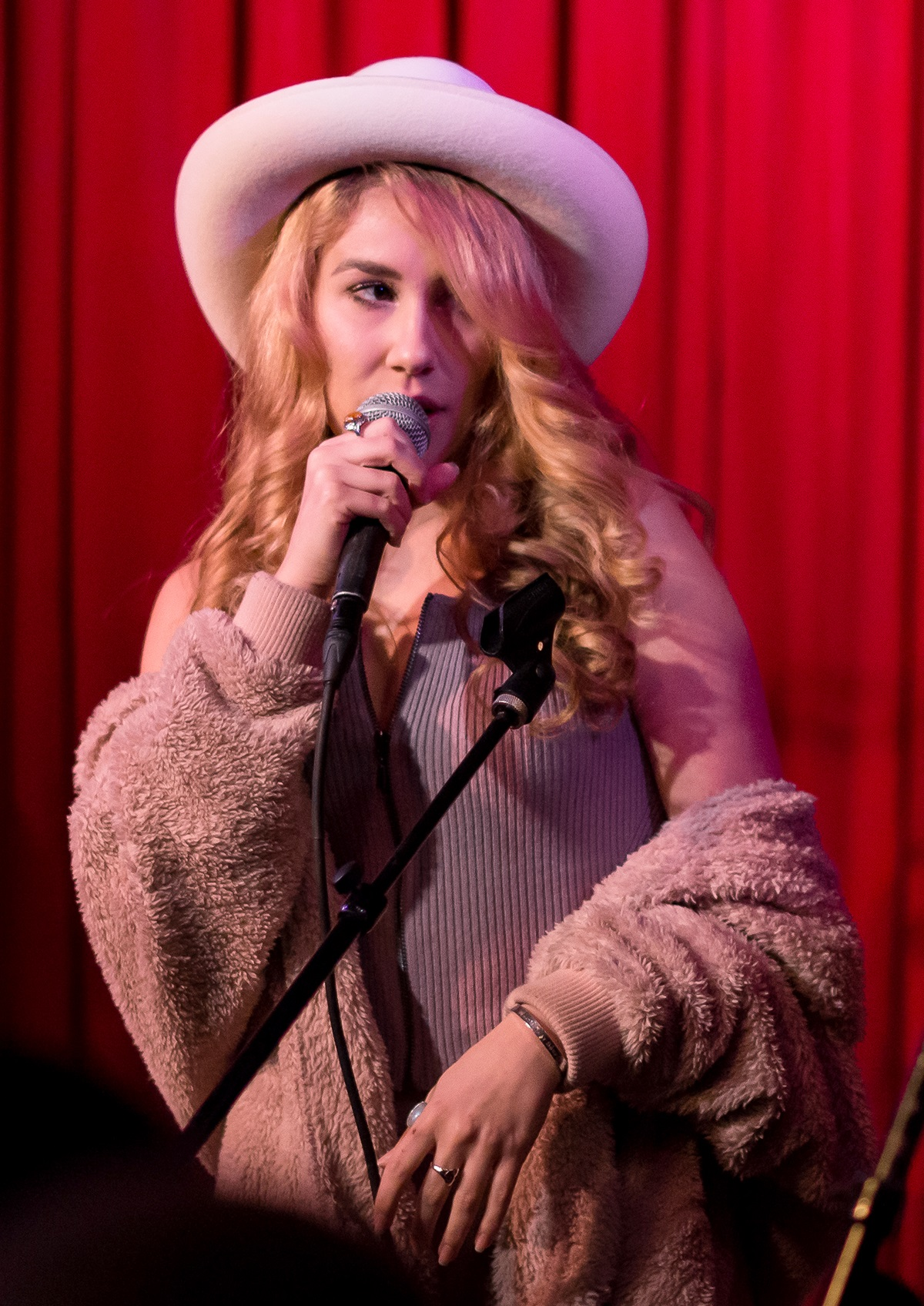 Haley Reinhart live at the Hotel Cafe in Hollywood, Los Angeles, California, on Friday, January 12, 2018.